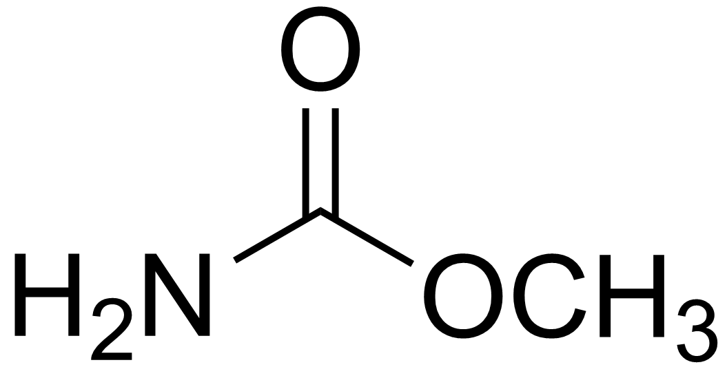 chemical structure of methyl carbamate